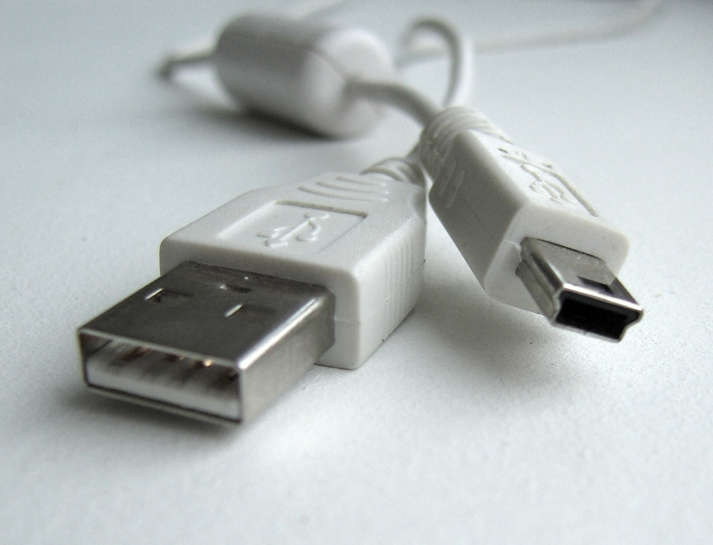 USB plugs ( standard-A to mini-B)